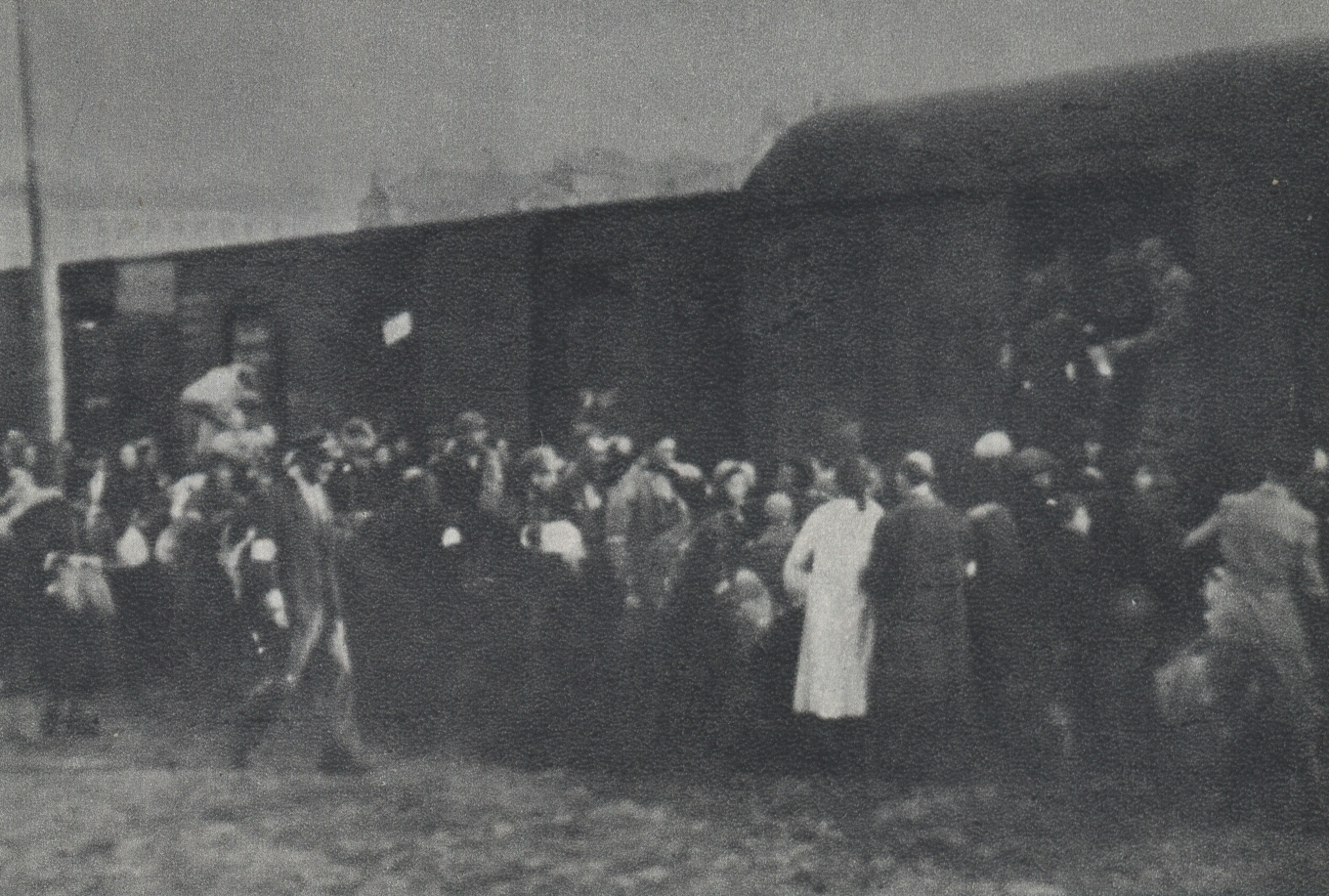 Jews from Warsaw Ghetto loading onto trains at the Umschlagplatz in German-occupied Warsaw. Photo taken during so-called Großaktion Warschau in summer 1942.